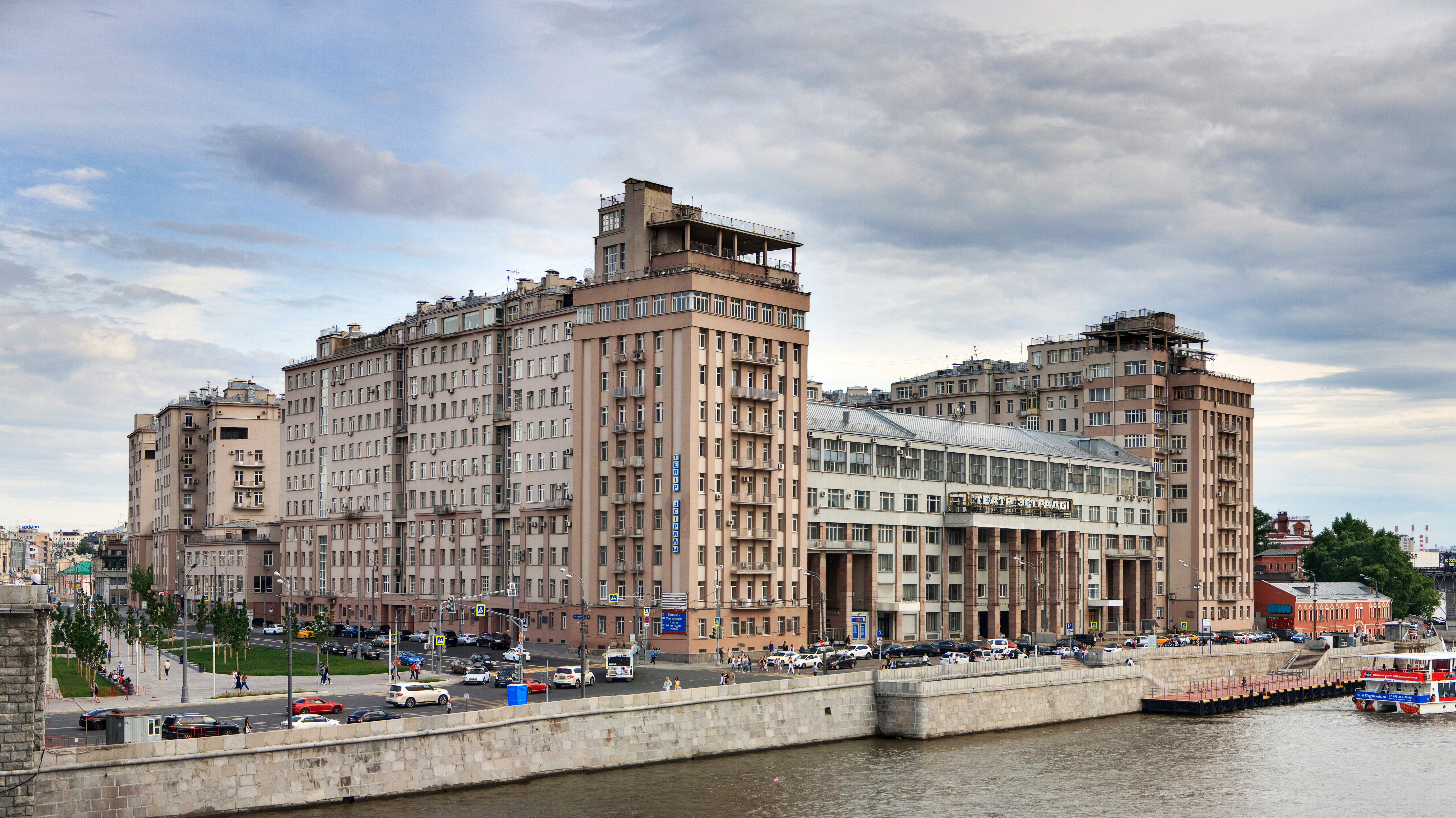 House on Embankment, Serafimovich street 2, Moscow, Russia